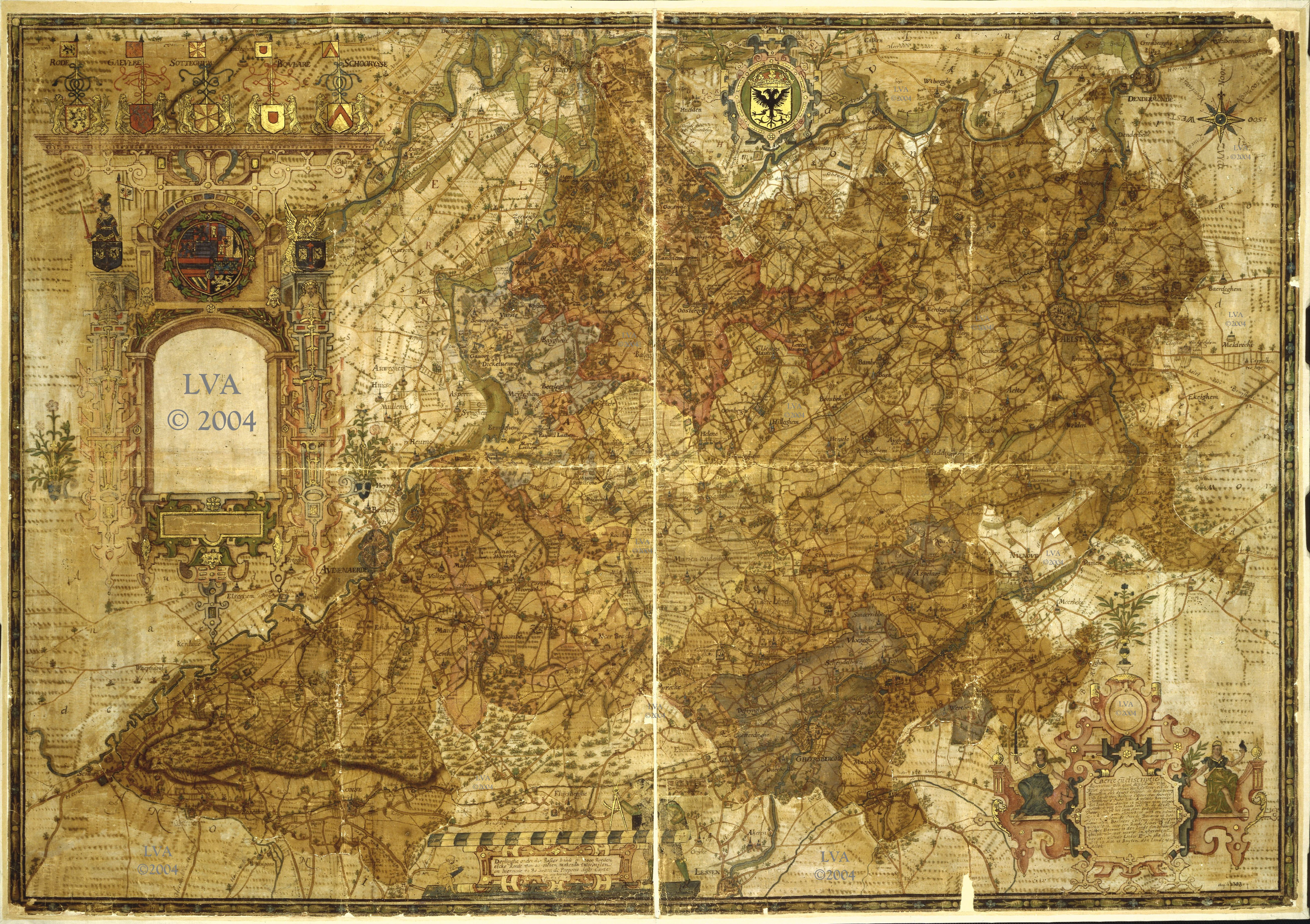 Land Van Aalst, Belgium, by Jacques Horenbault in 1619.jpg